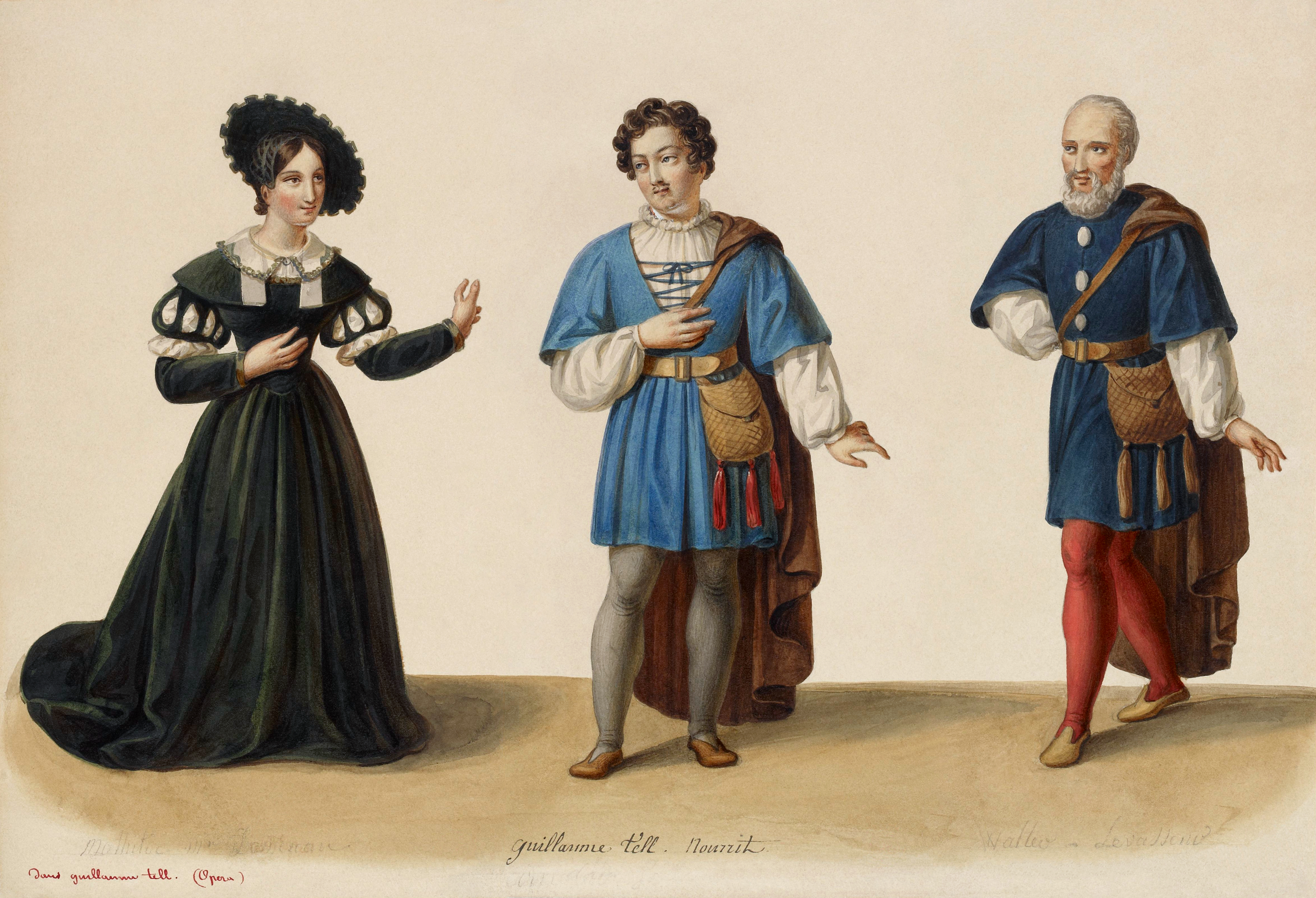 Costume designs for the première of Rossini's William Tell. Laure Cinti-Damoreau as Mathilde Adolphe Nourrit as Arnold Melchtal, and Nicolas Levasseur as Walter Furst. The images quite obviously originally were meant to fit together.[1] The shadows stretch from one image to the other, and even the watercolour splotches and other minor elements of the painting match up perfectly. I presume it was cut up in order to send it to the various tailors who made the costumes, but it makes more sense as art put back together. Compare File:Rossini - Le comte Ory - Eugène Du Faget - Paris 1828 - 2. Le gouverneur, Levasseur, le comte Ory, Nourrit, Ragonde, Gosselin.jpg or File:Costumes - Frederic Lemaitre as Buridan, Mlle George as Marguerite de Bourgogne (La Tour de Nesle, September 1832).jpg